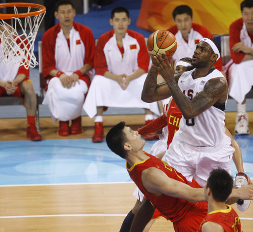 U.S. Olympic Men's Basketball team member LeBron James goes up for shot against China's Yao Ming Sunday, Aug. 10, 2008, during action in the Group B men's Olympic basketball game between the U.S. and China, at the 2008 Summer Olympic Games in Beijing.